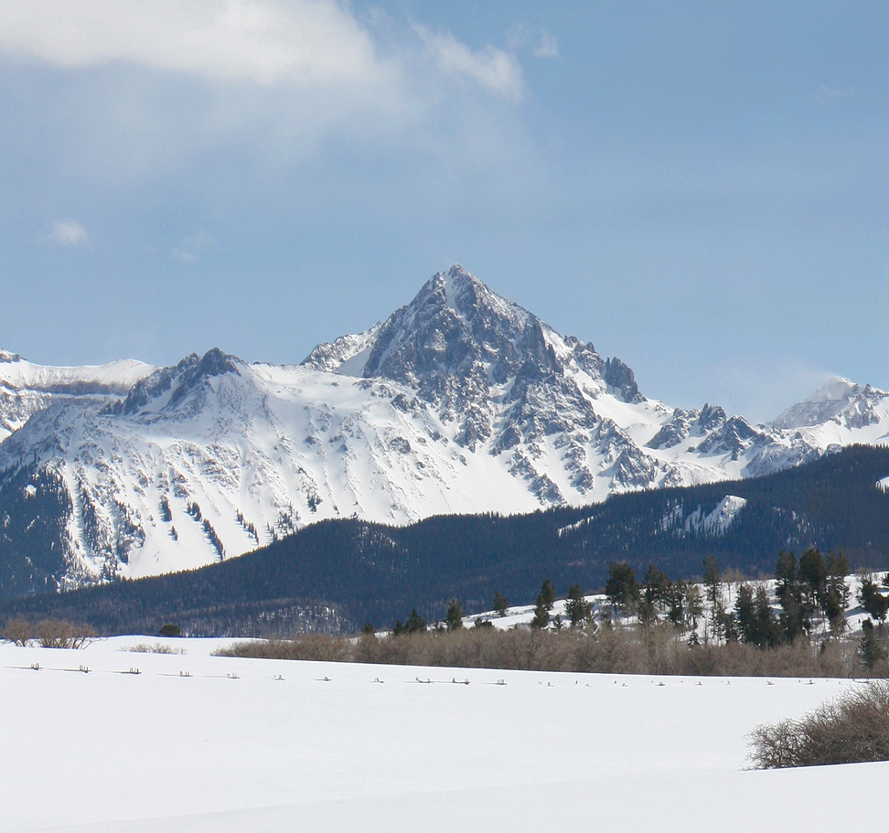 mt sneffels